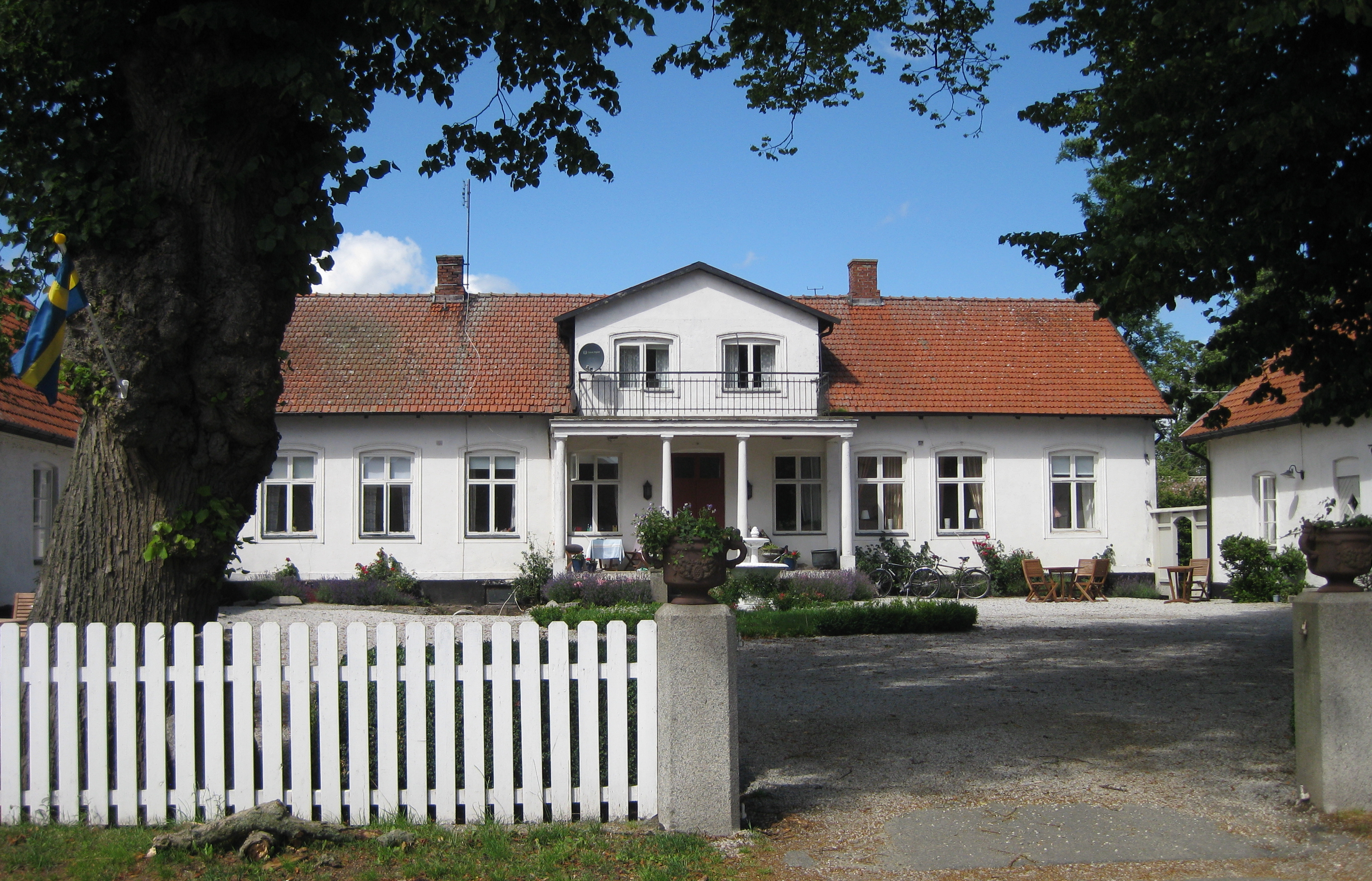 Svabesholm manor in Scania, Sweden